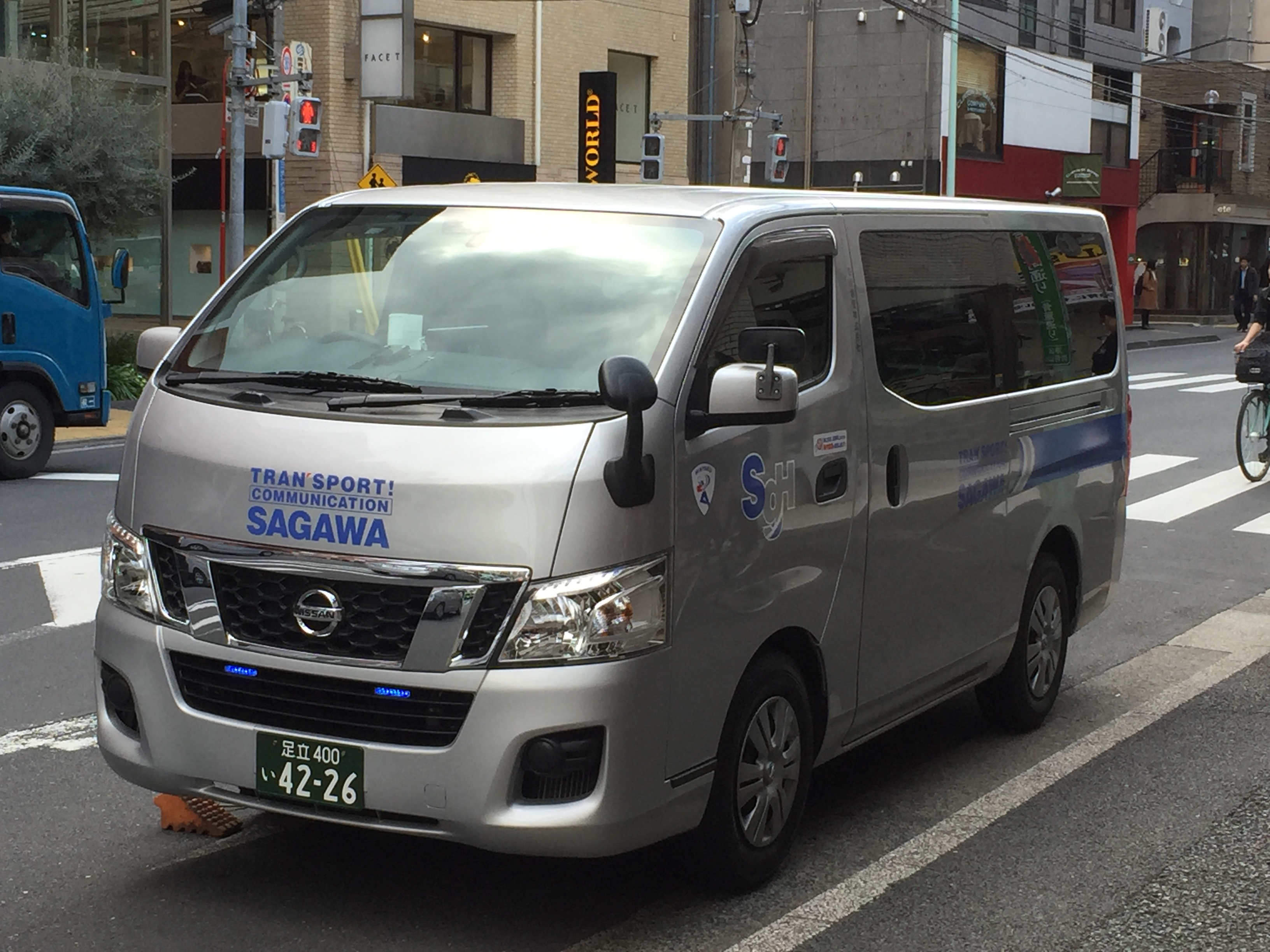 Front side of a Nissan NV350 used by Sagawa Express.